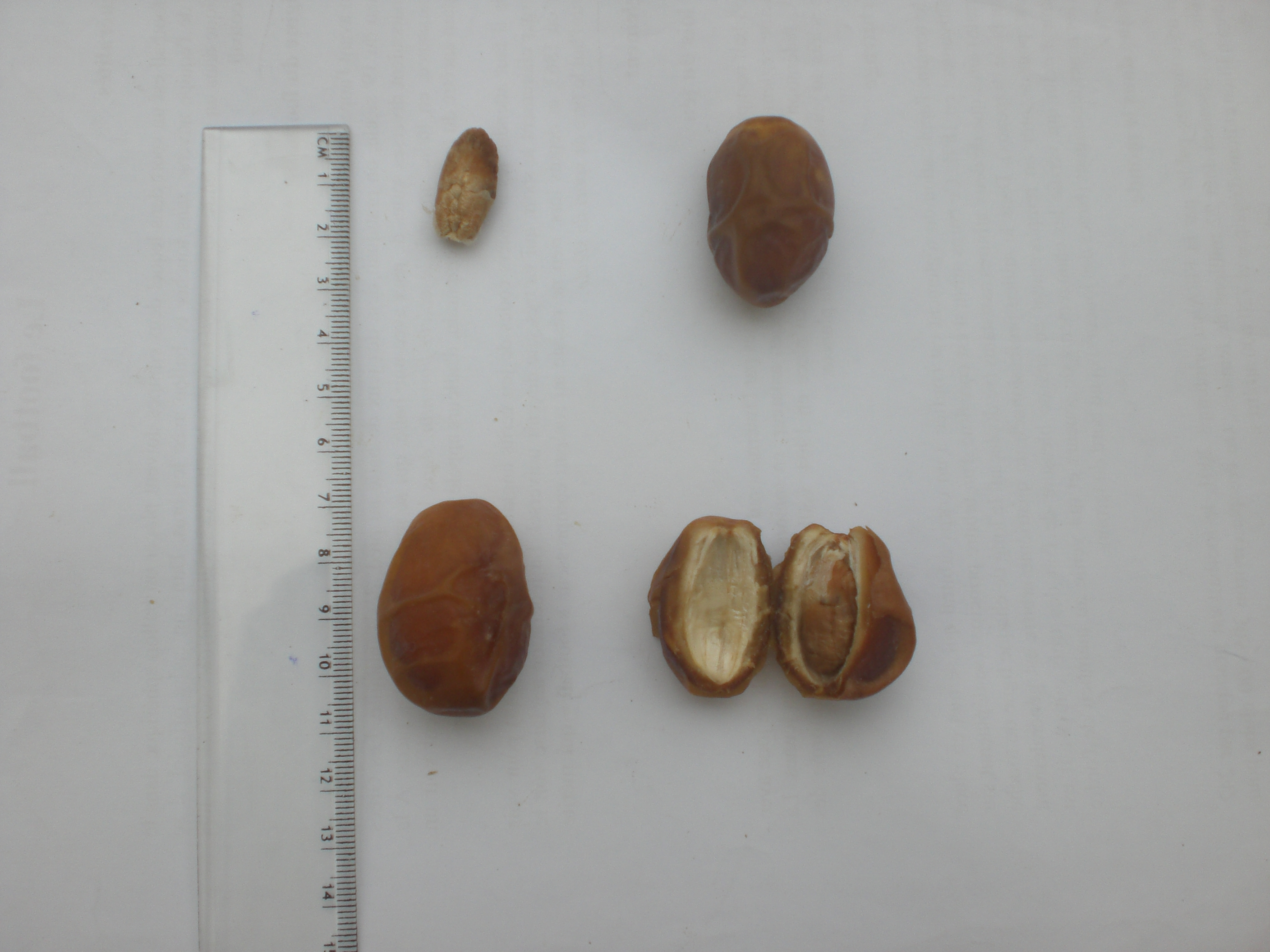 Trounja, Tunisian dates